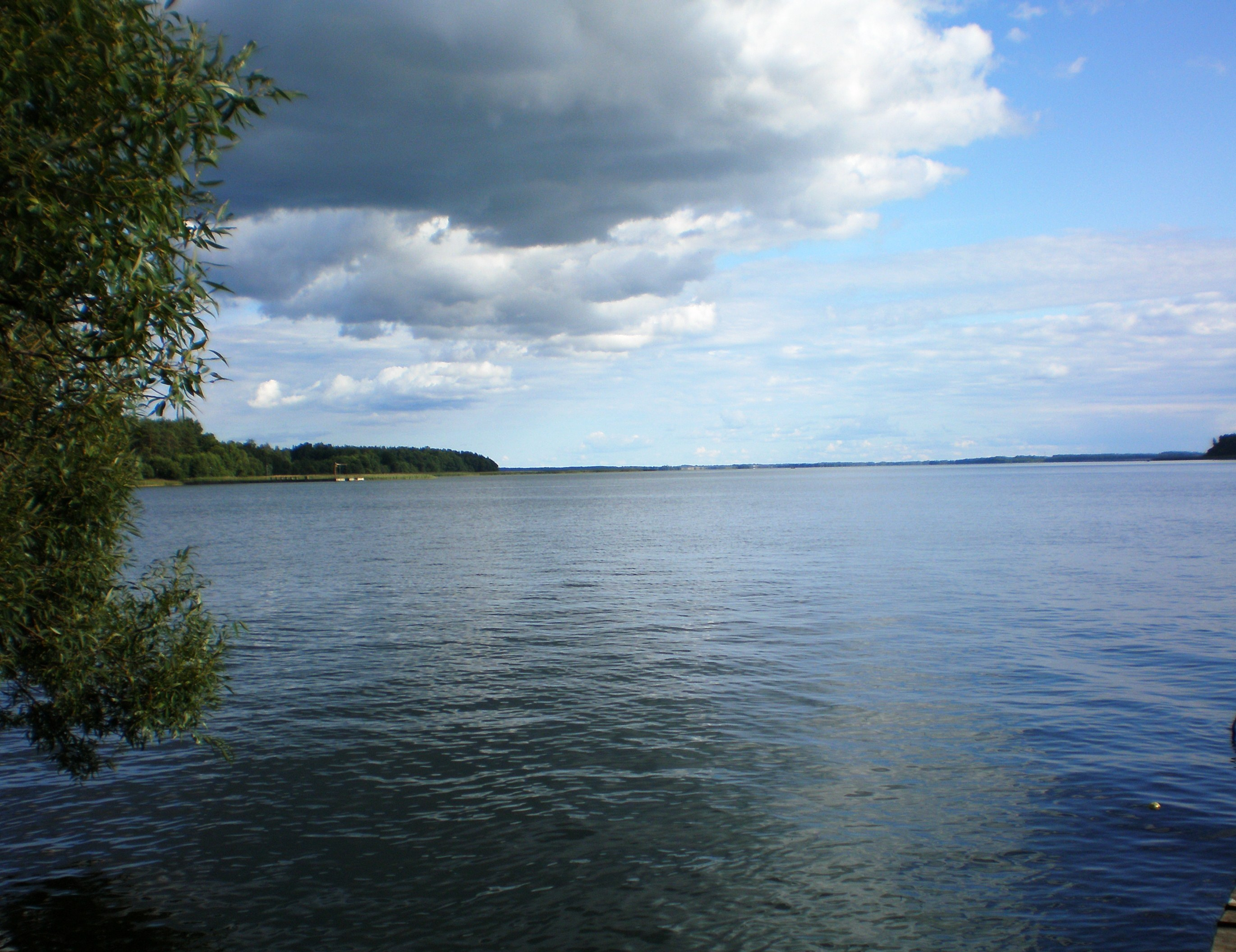 Drūkšiai Lake near Tilžė village, Zarasai district, Lithuania